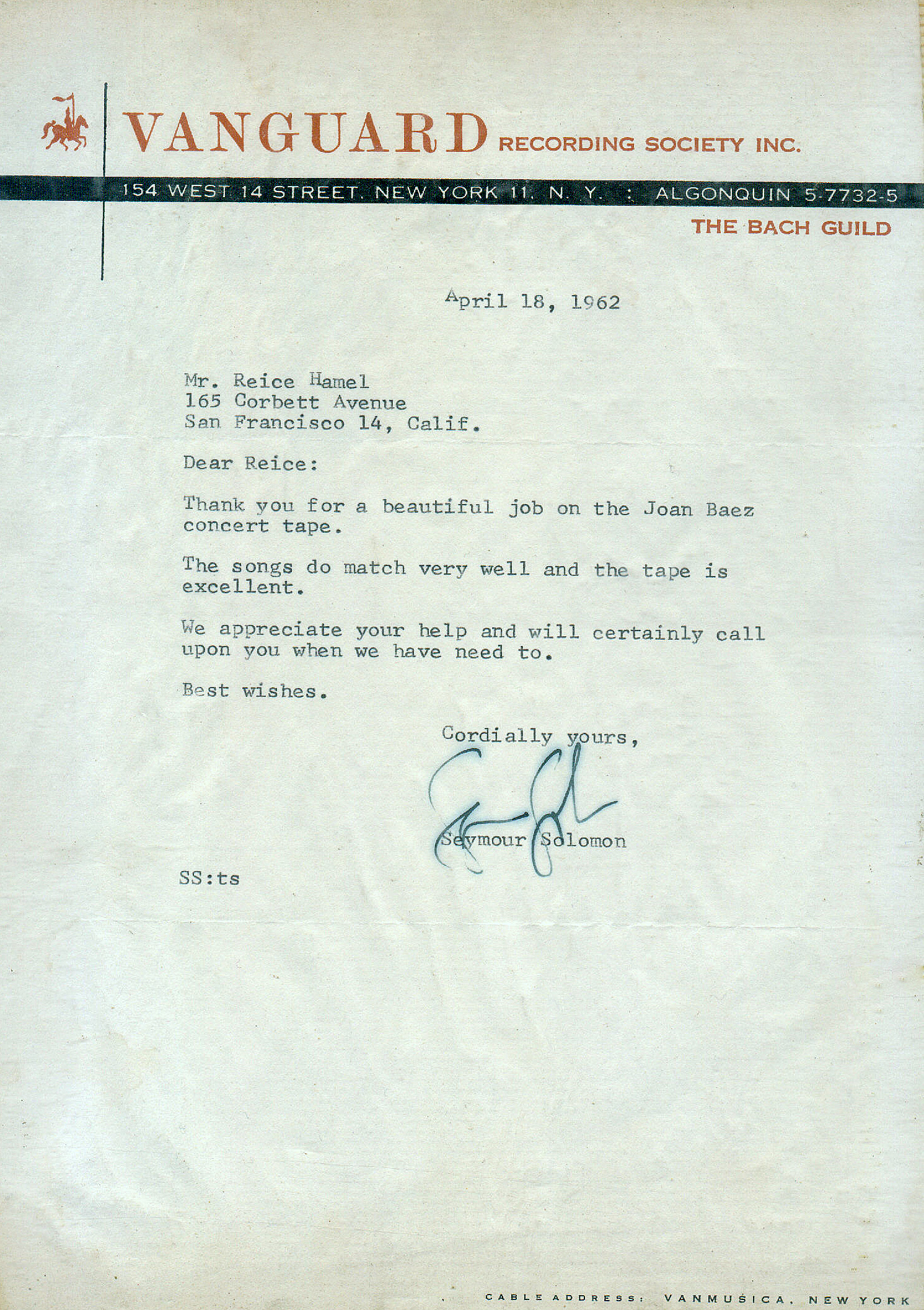 Thank you Letter from Vanguard, RE: Joan Baez Concert Reice Hamel